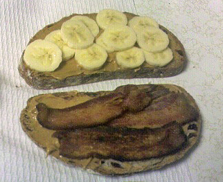 Bread, bacon, banana, butter (peanut)